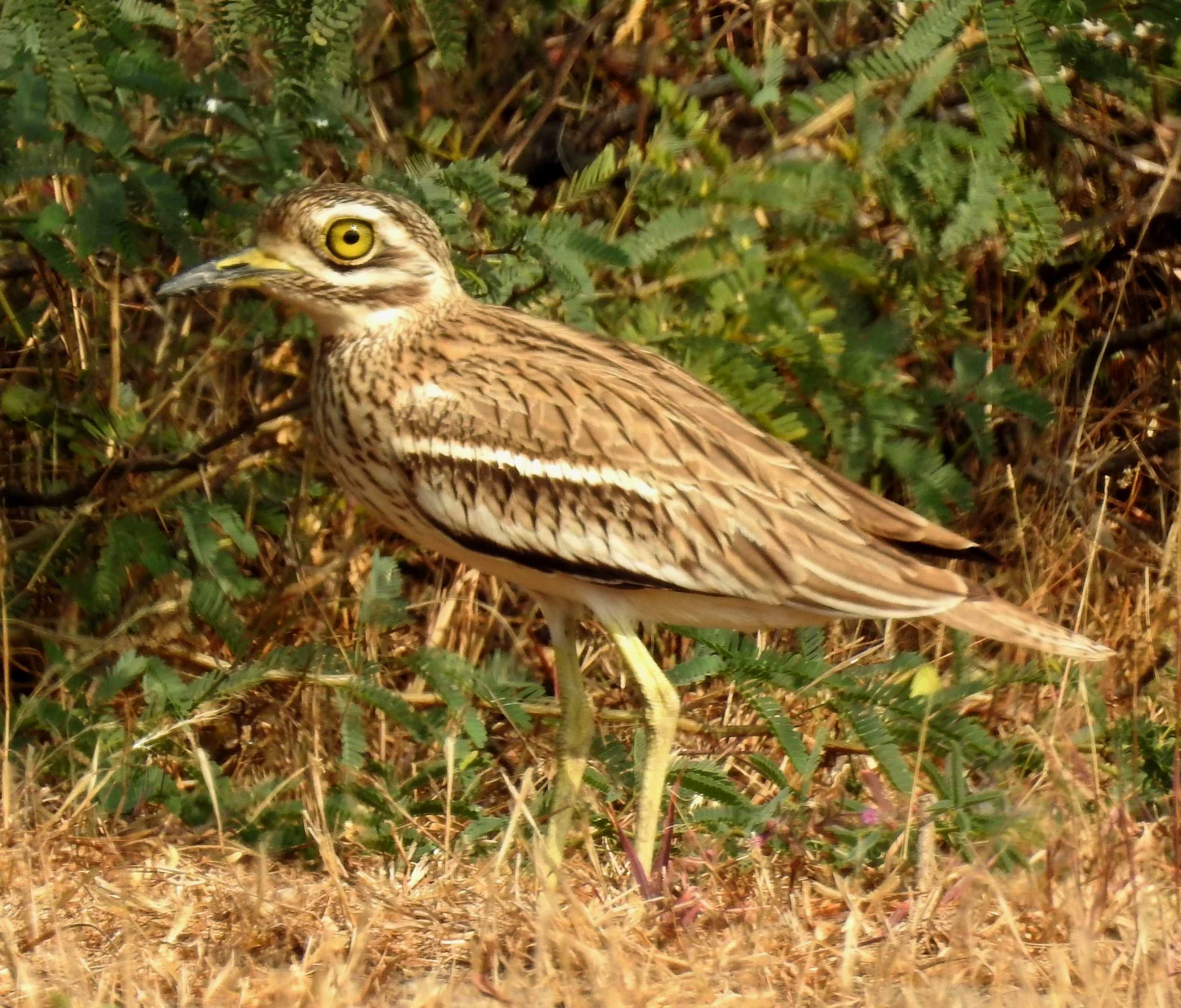 Indian Thick-knee or Indian Stone-curlew Burhinus indicus. Photographed by Dr. Raju Kasambe at Lakhota Lake, Jamnagar, Gujarat, India.